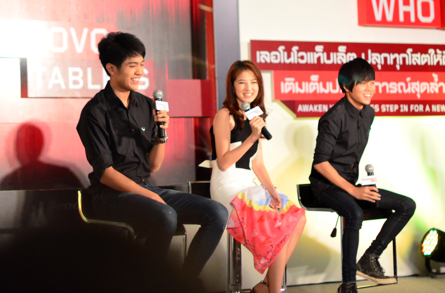 Sedthawut, Sananthachat, Gun